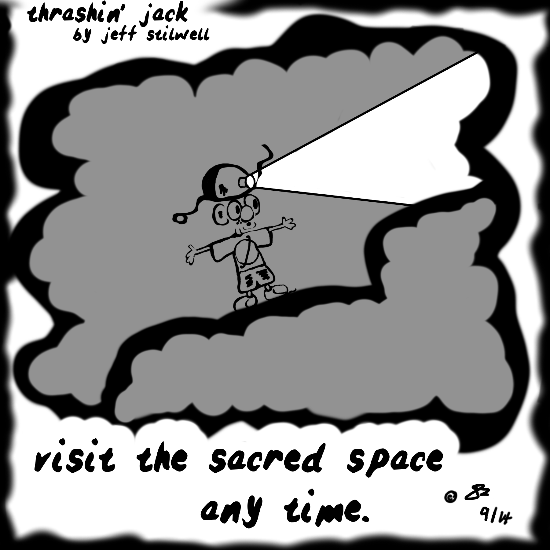 One of Stilwell's Sacred Space comics. He claims that a sacred space lies within each of us, not outside in some building that we must travel to and enter.